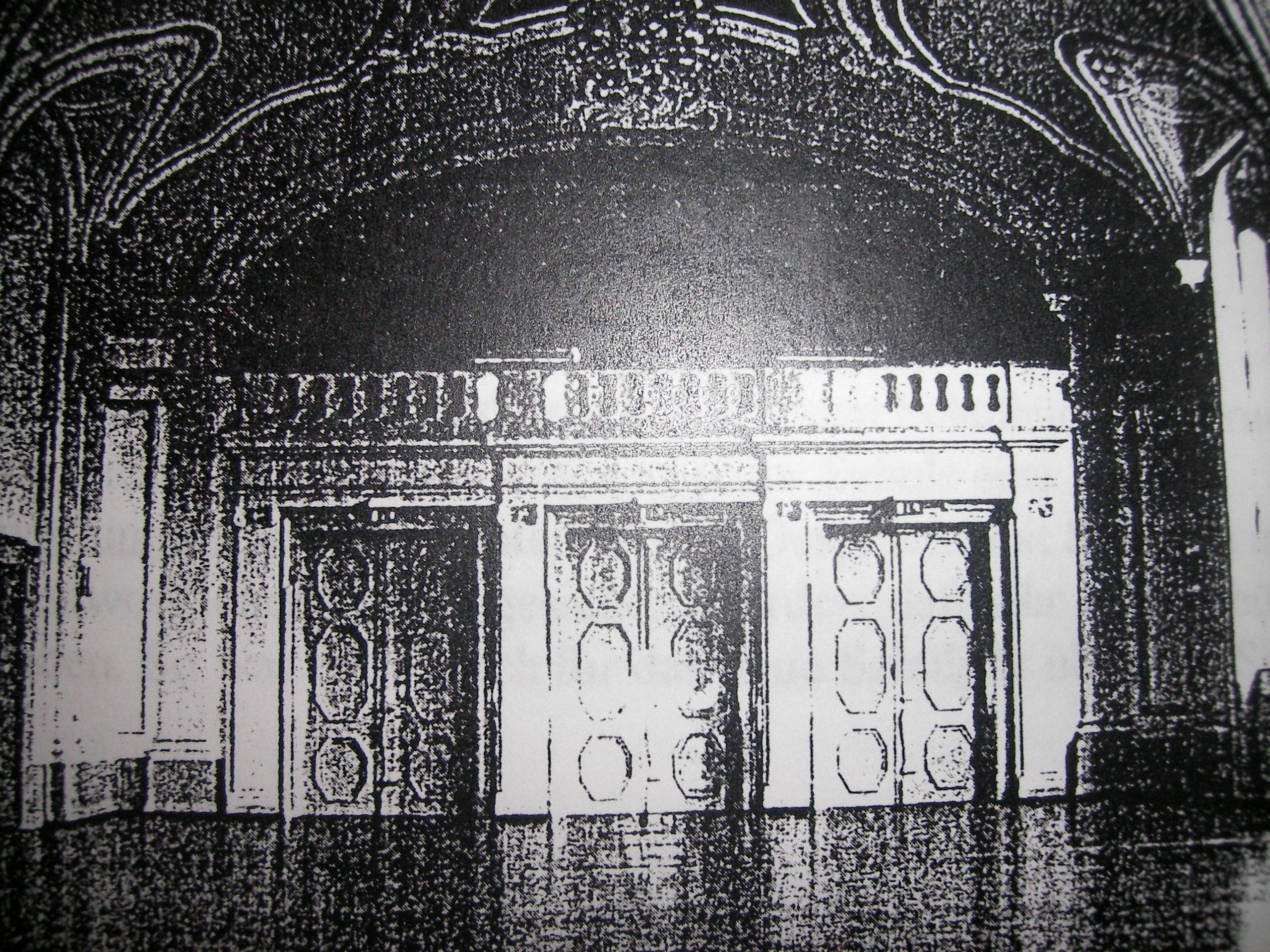 Aula alte Aufnahme